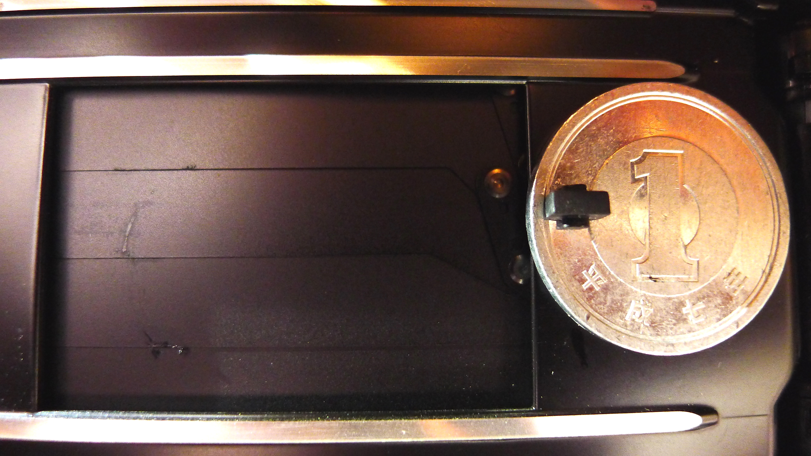 Shutter of Canon EOS 620 SLR camera